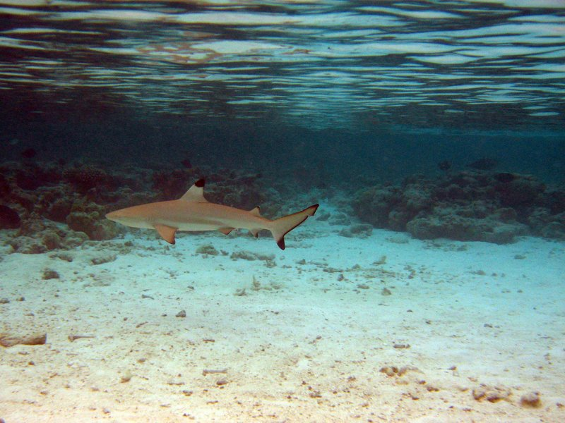 Blacktip reef shark (Carcharhinus melanopterus) in the Maldives.